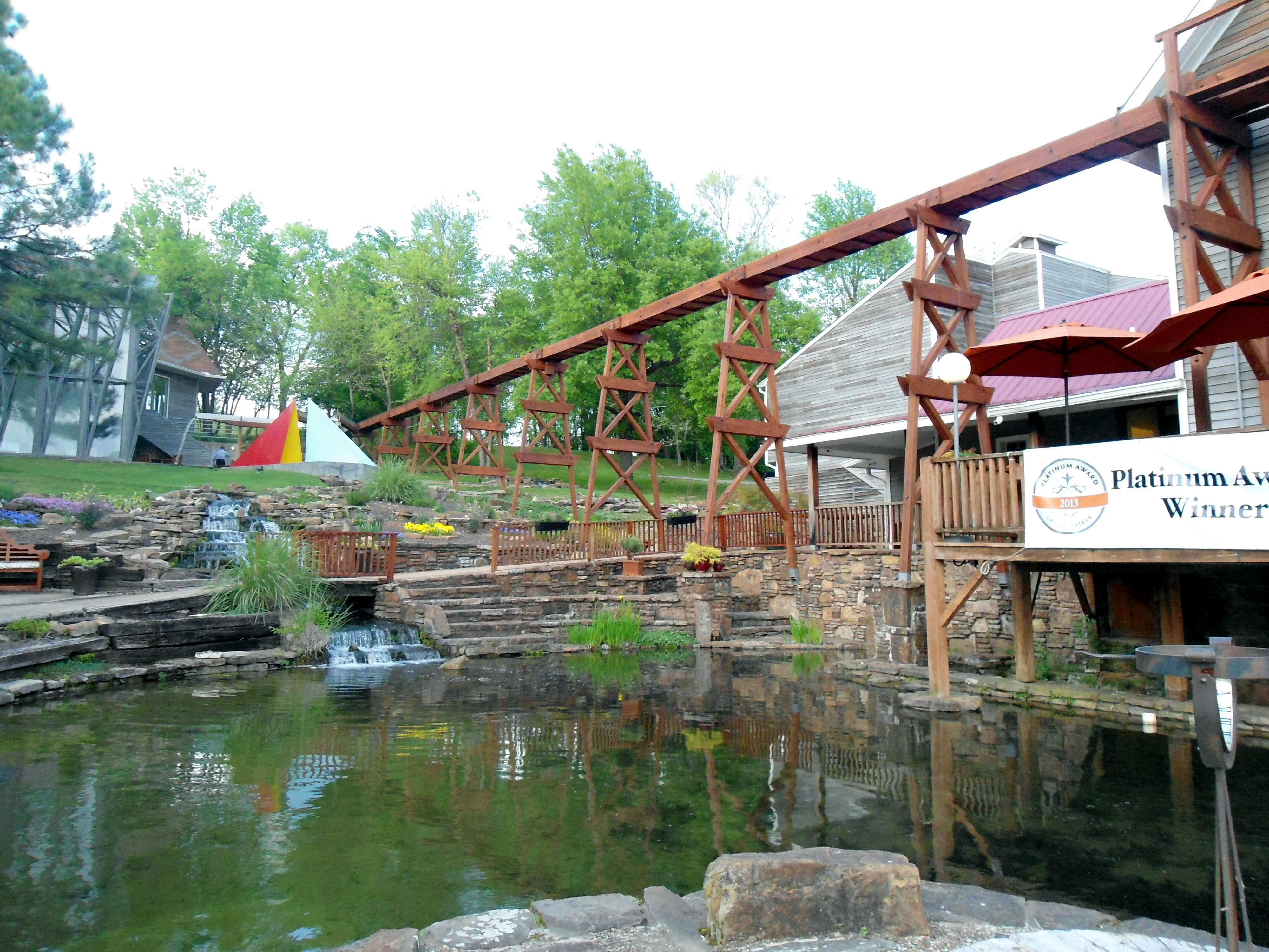 Pond of water adjacent to the Johnson Mill in Johnson, AR. The Hotel restaurant, James at the Mill, is in the background to the right